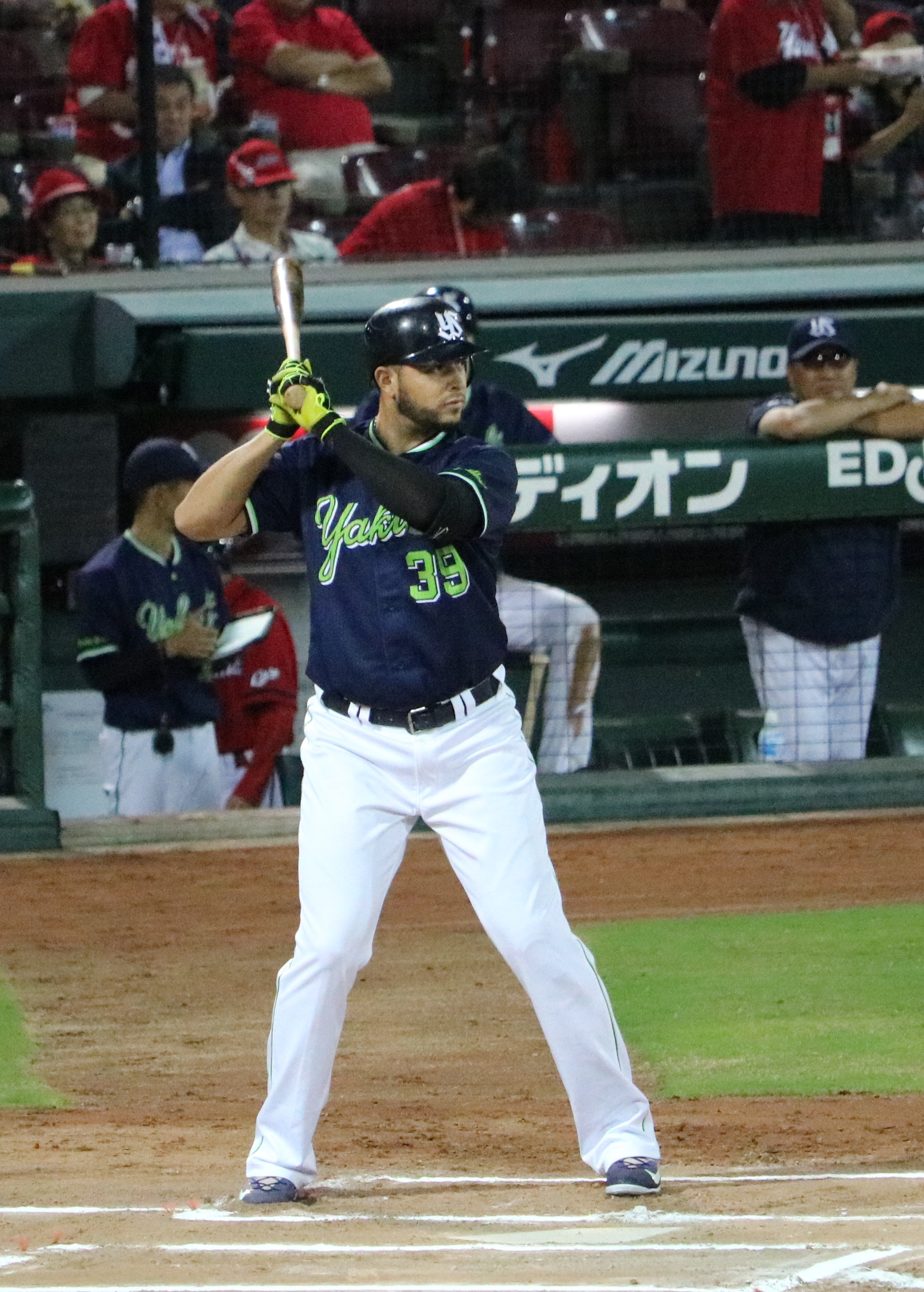 2017/9/28 in Hiroshima